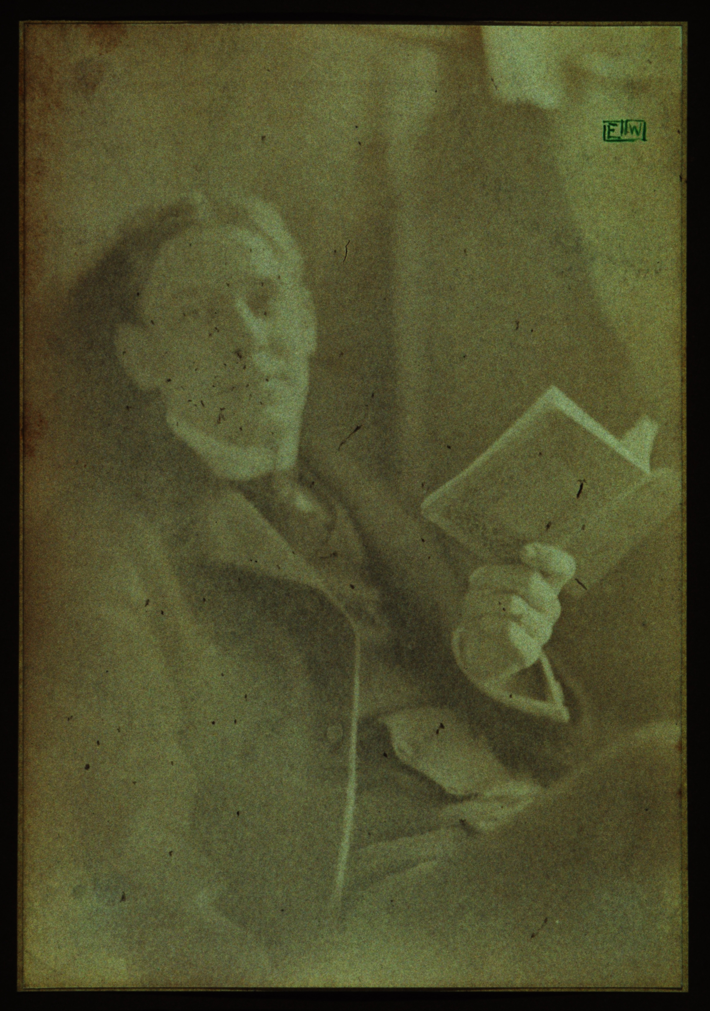 Title: Dr. Morgan Frederick Mount] / EW Abstract/medium: 1 photographic print : platinum ; 17 x 12 cm. mounted on brown paper, 35 x 26 cm., with beige intermediate mount.